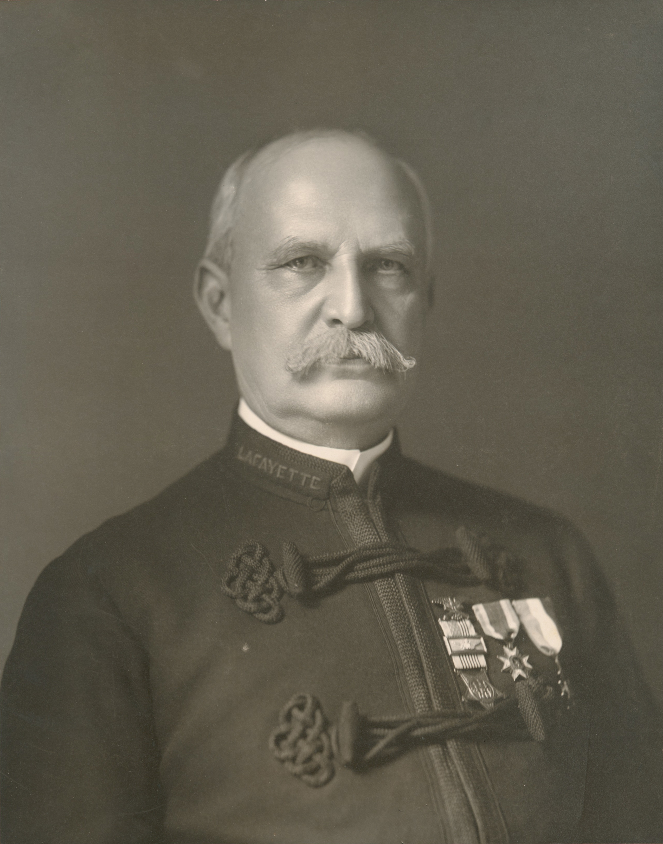 Former baseball executive Abraham G. Mills. Photo courtesy of the New York Public Library , The A. G. Spalding Baseball Collection.